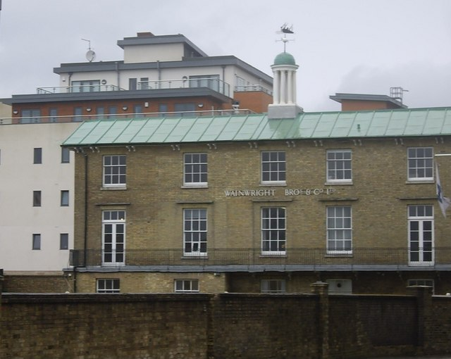 Bowling Green House Business premises of Wainwright Bros & Co Ltd, shipping agents fd 1889.